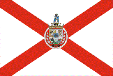 Hondarribia flag